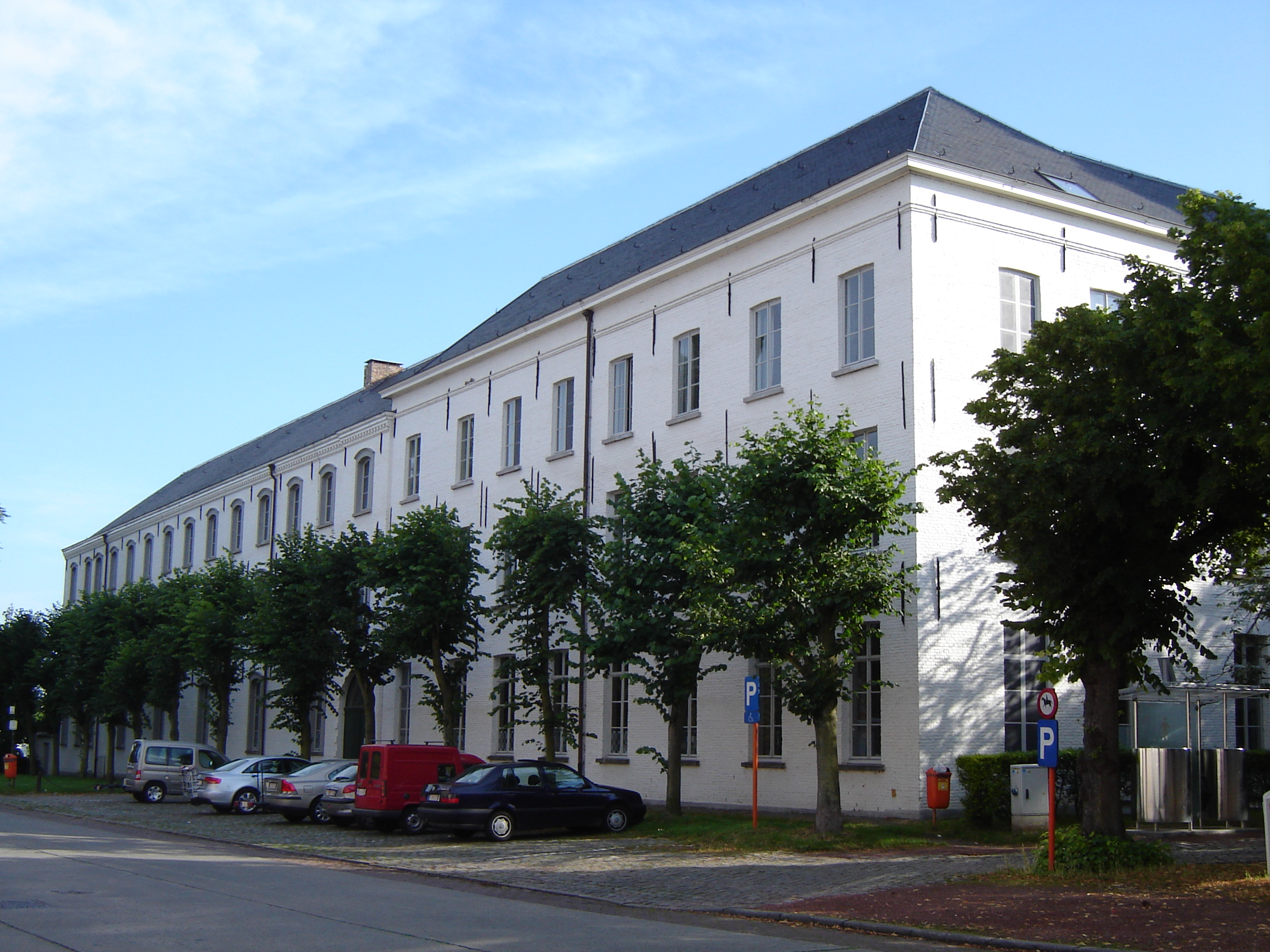 "Oude Abdij" (Old Abbey) in Drongen. Drongen, Gent, East Flanders, Belgium